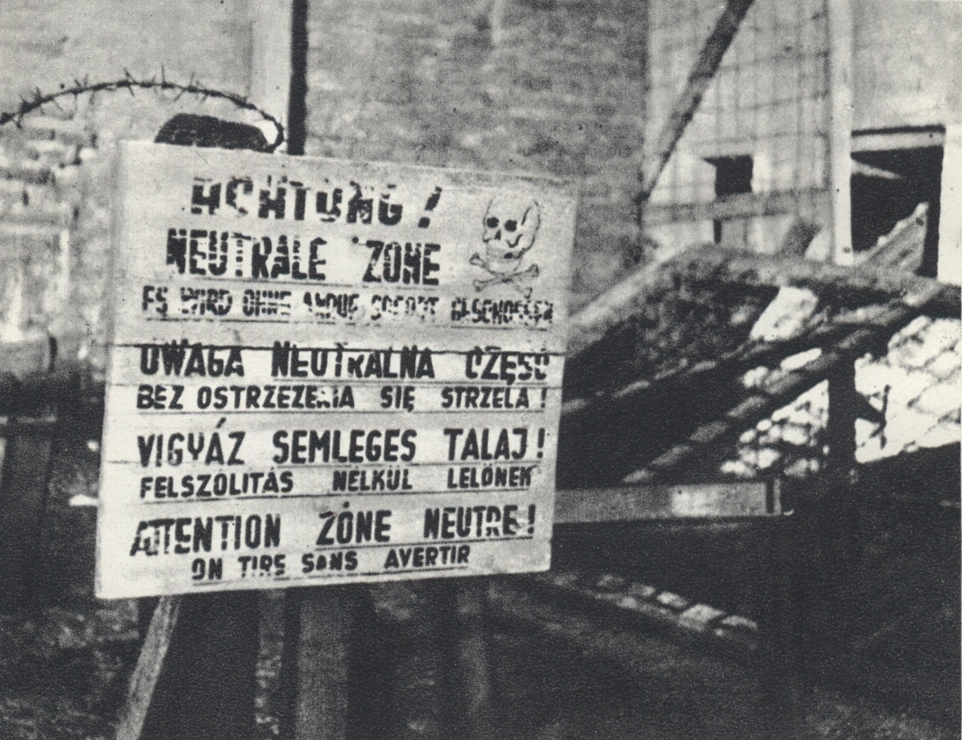 Warning sign near the fence of the Nazi-German “Warsaw concentration camp” (Konzentrationslager Warschau). Inscription in four languages (German, Polish, Hungarian and French) reads: “Attention! Neutral zone. Shooting without warning!”